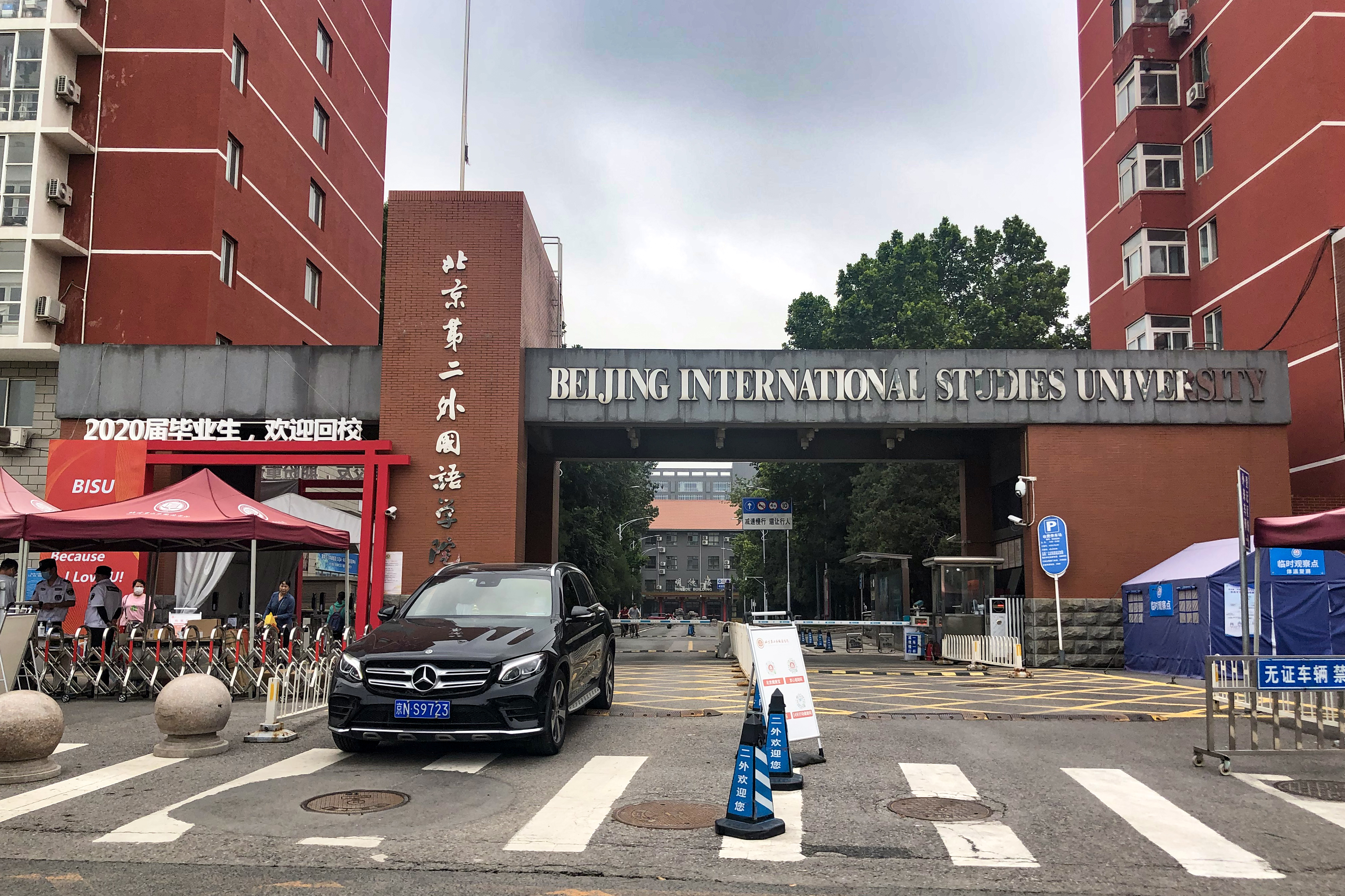 Next to CUC.